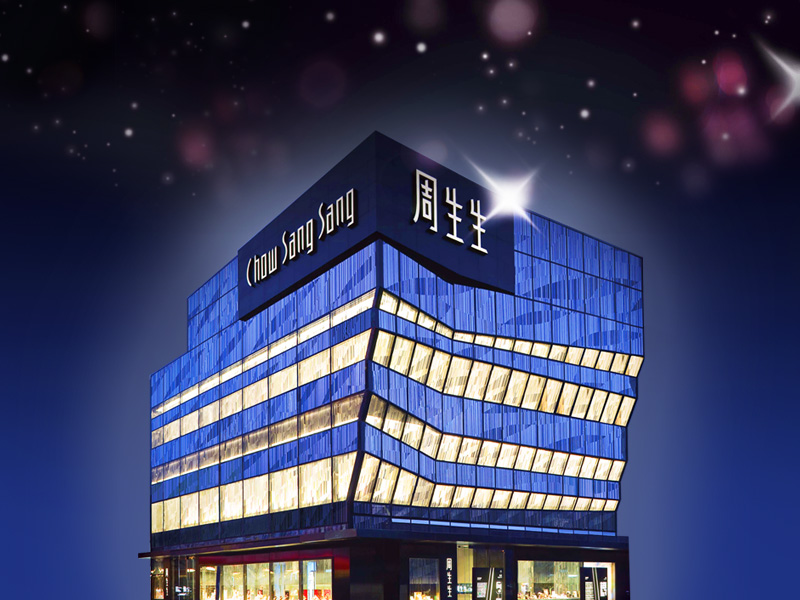 Chow Sang Sang store in Sanlitun, Beijing